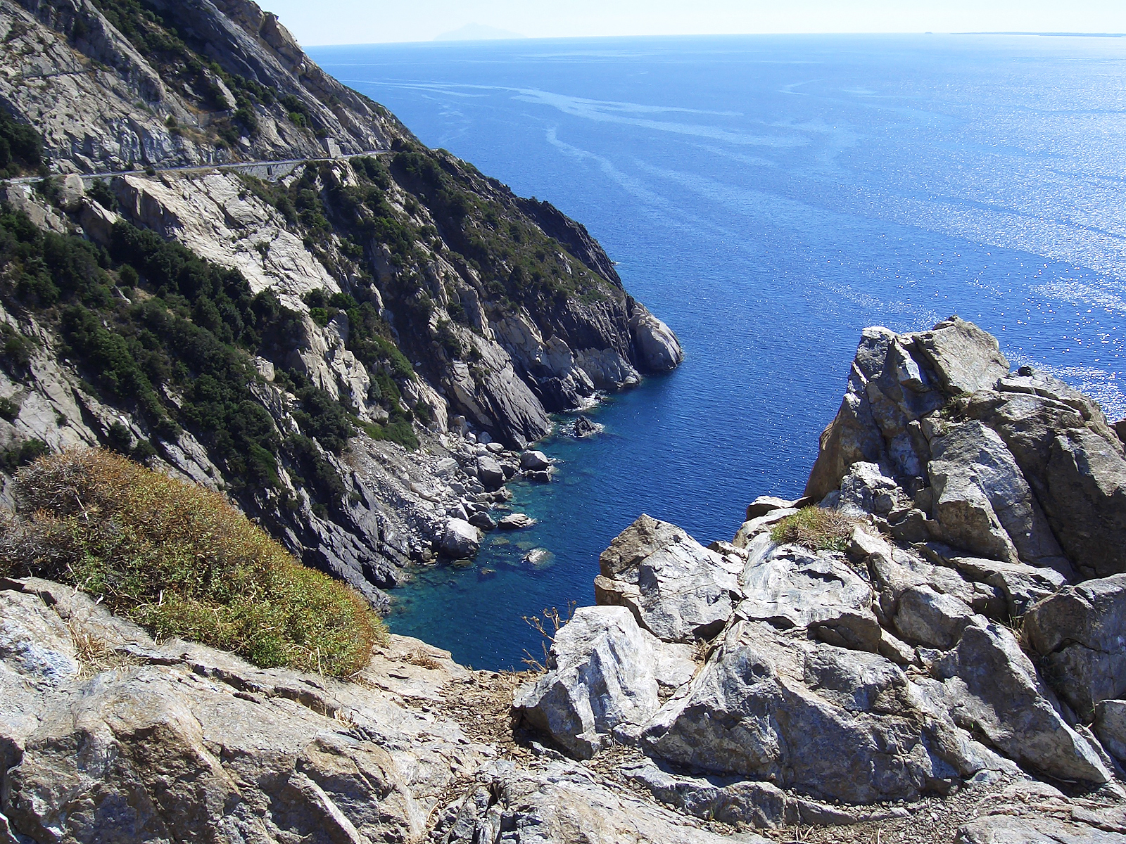 Isola d'Elba, west coast